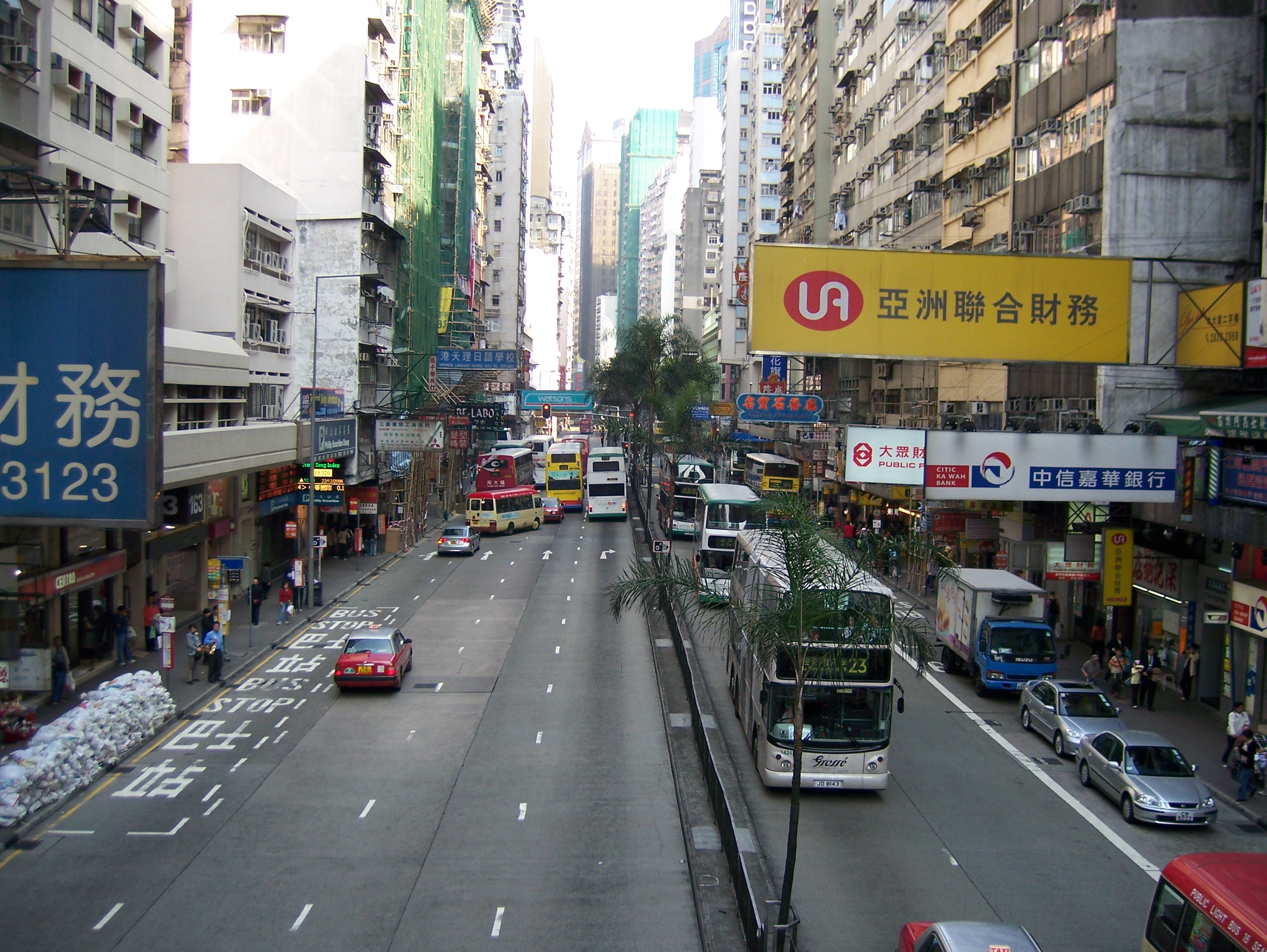 By Tsui Sing Yan Eric